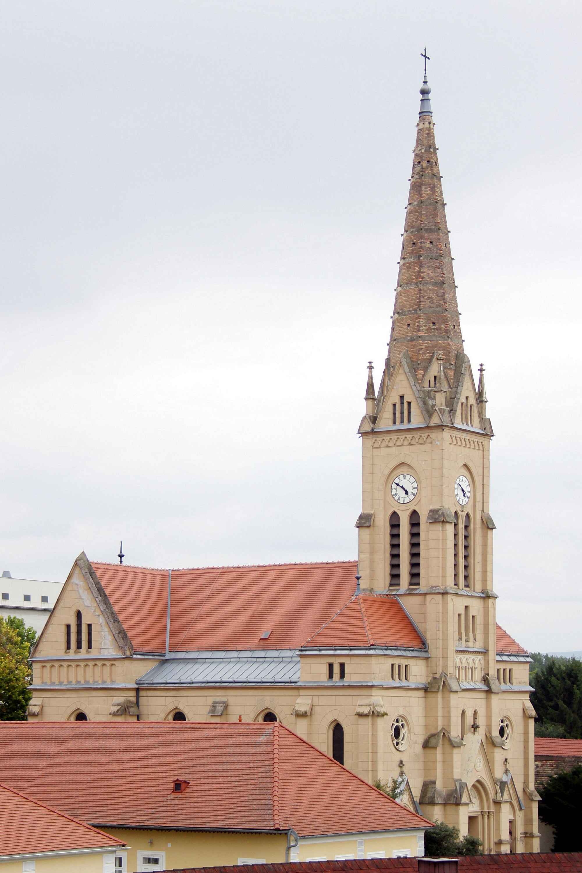 Evangelic parish church - Pöttelsdorf Object location47° 45′ 06.25″ N, 16° 26′ 01.85″ E